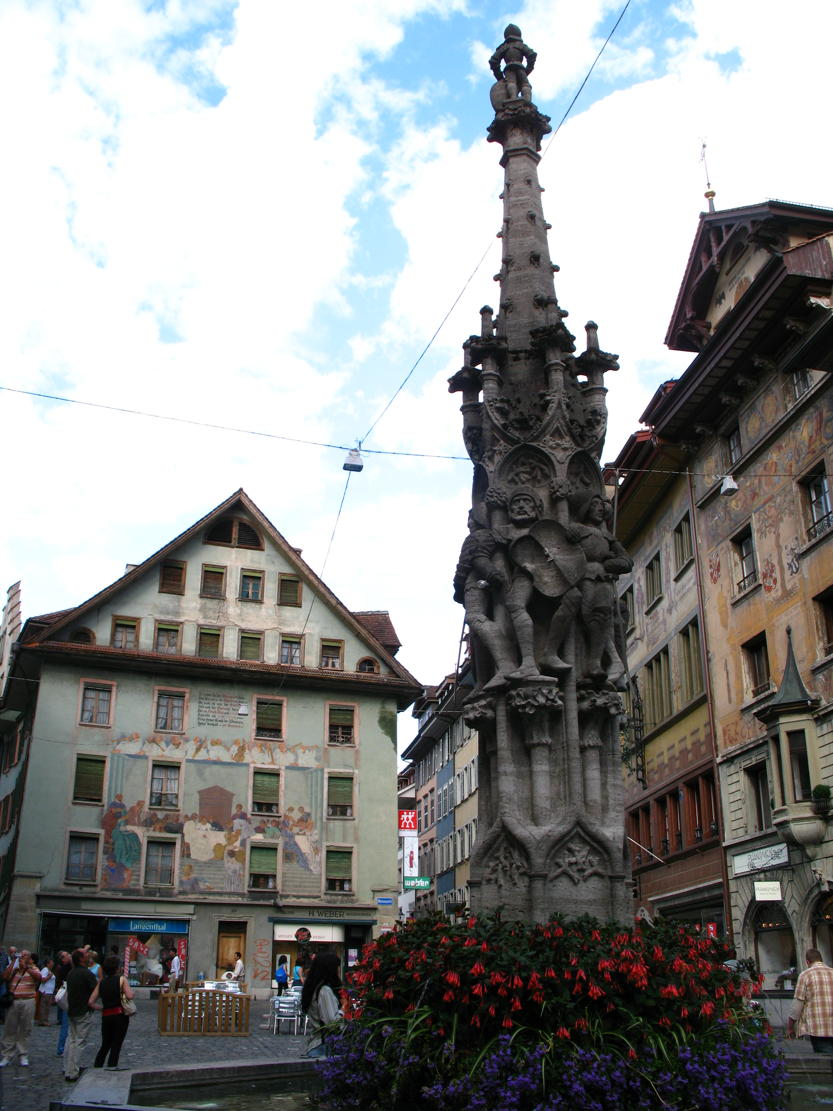 Wine Market, Luzern, Switzerland